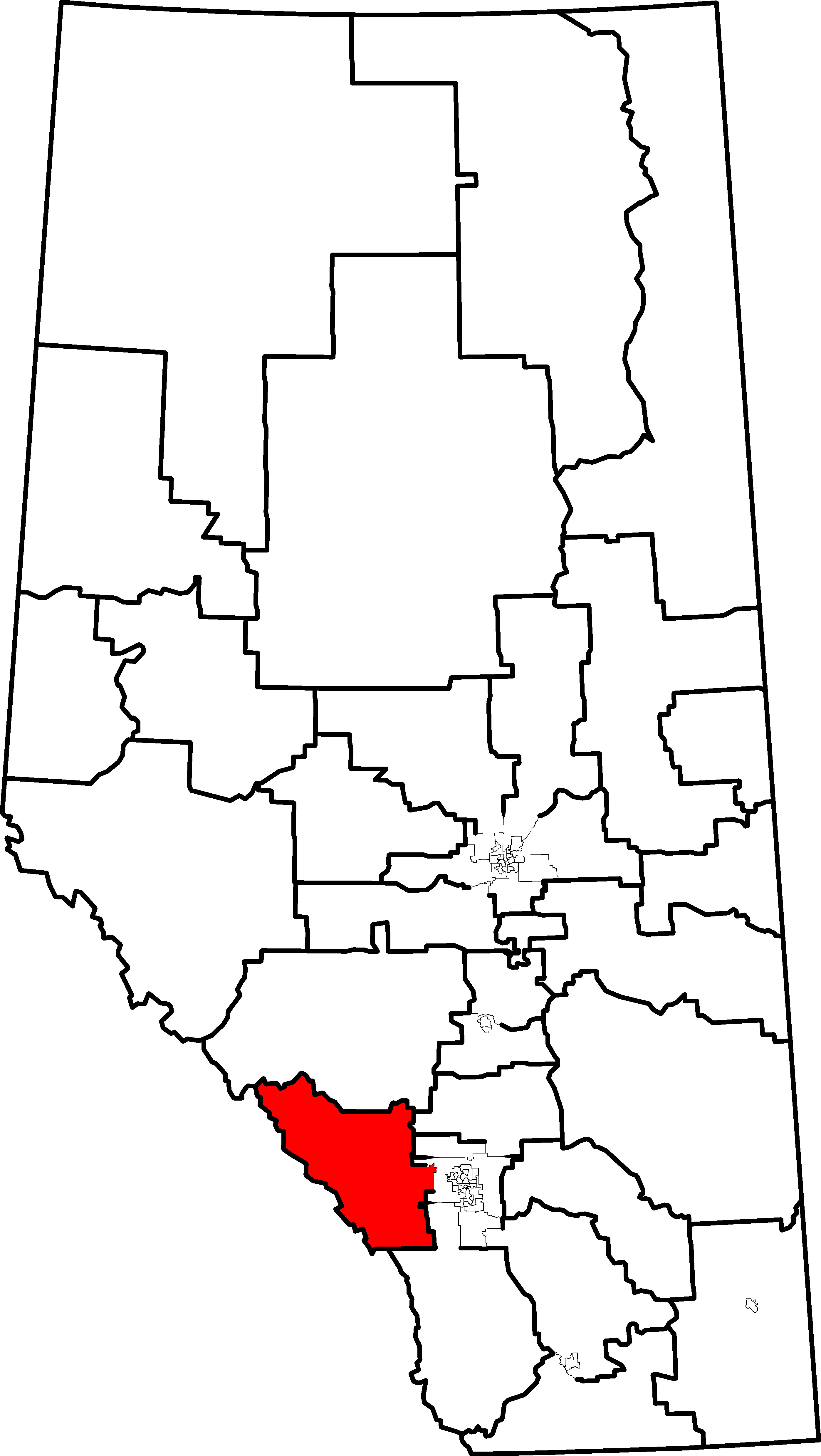 A map of the Alberta provincial electoral districts, effective 2010. Banff-Cochrane is highlighted in red.